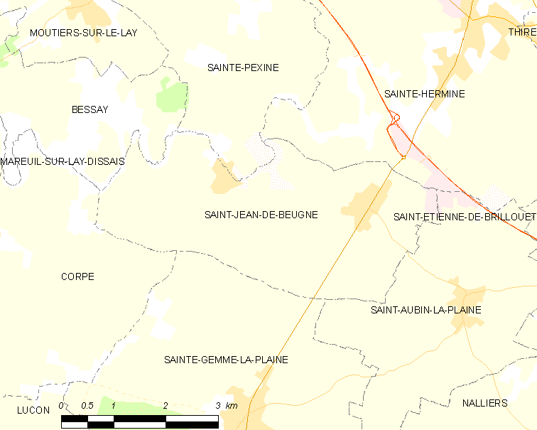 Map of French municipality Saint-Jean-de-Beugné